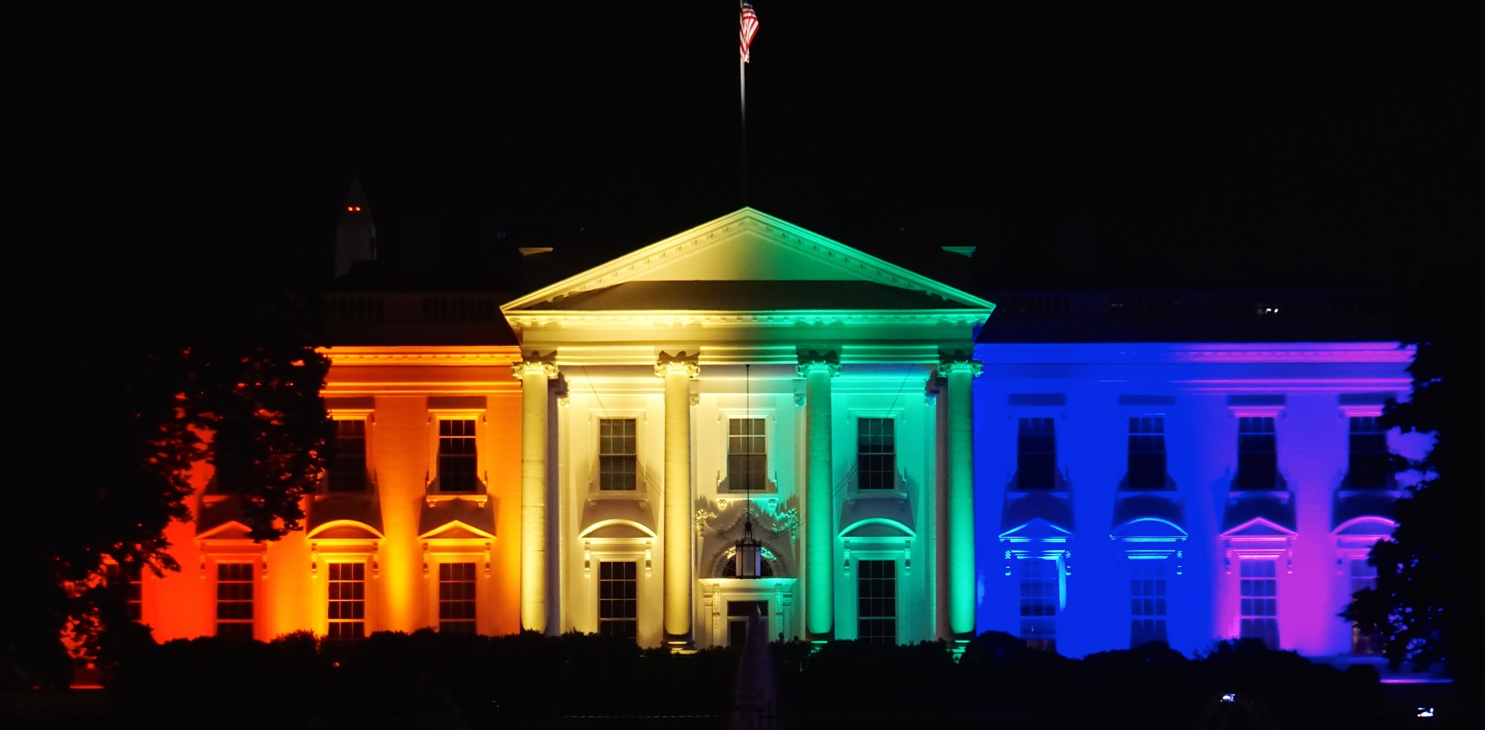 2015.06.26 White House Rainbow Colors